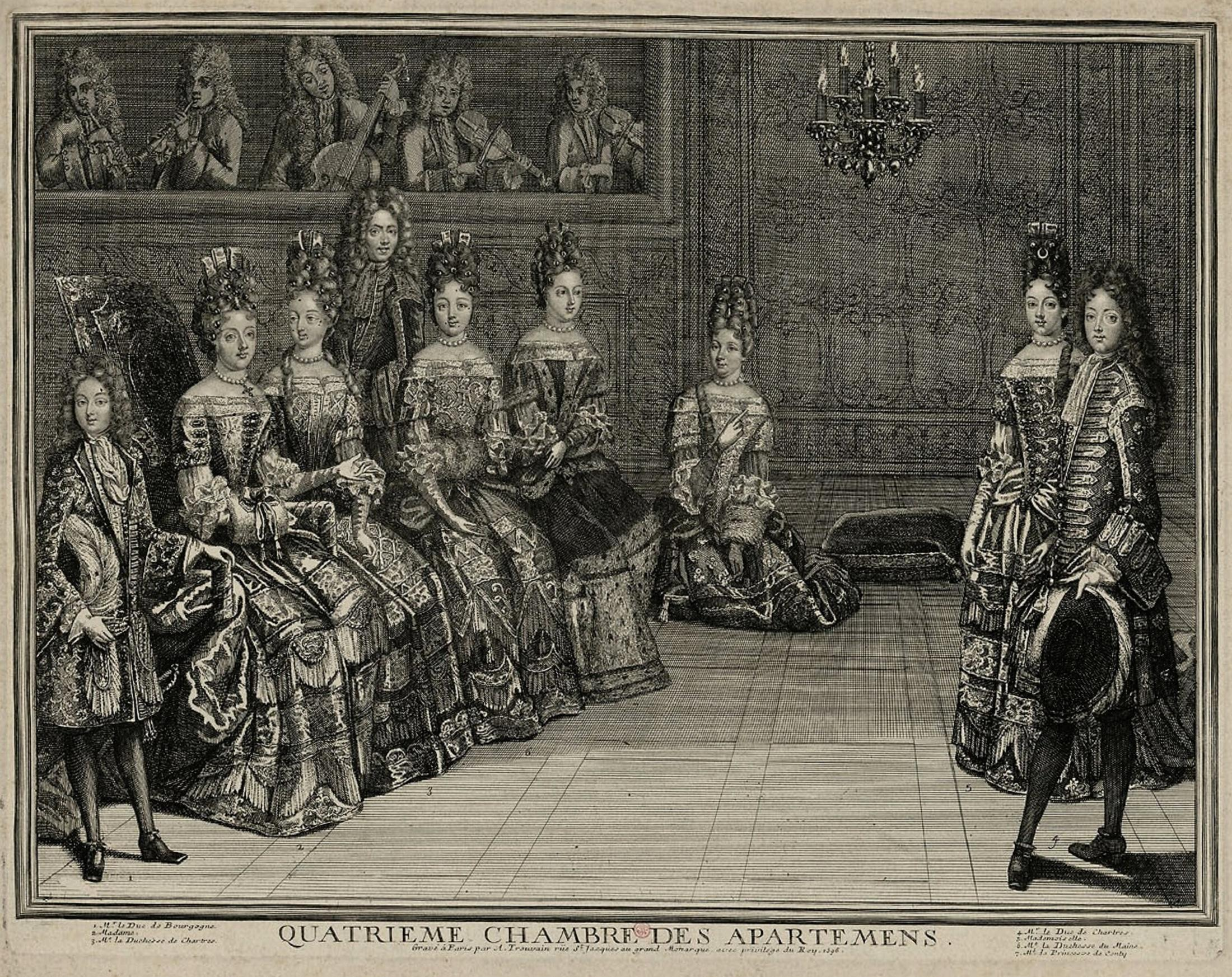 Fourth room of Apartment at Versailles, 1696. Numbered from 1-7 are: 1-Louis de France, duc de Bourgogne 2-Madame 3-Madame de Chartres 4-Monsieur de Chartres 5-Mademoiselle 6-Madame du Maine 7-Madame la princesse de Conti